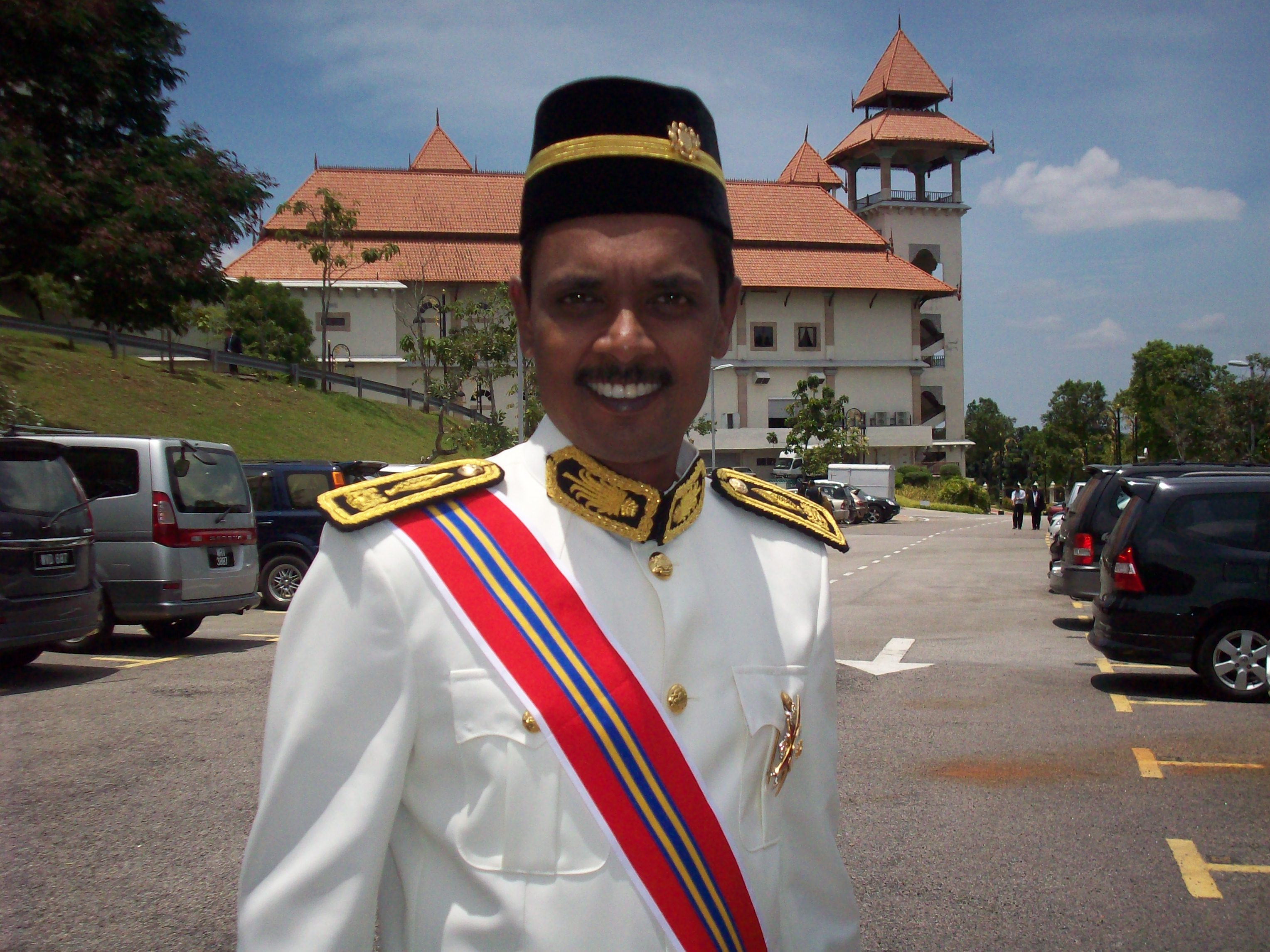 Magendran M. Munisamy was awarded The Panglima Jasa Negara (PJN), Commander of the Order of Meritorious Service which carries the title `Datuk' on the 04 June 2011 by the 13th King of Malaysia.